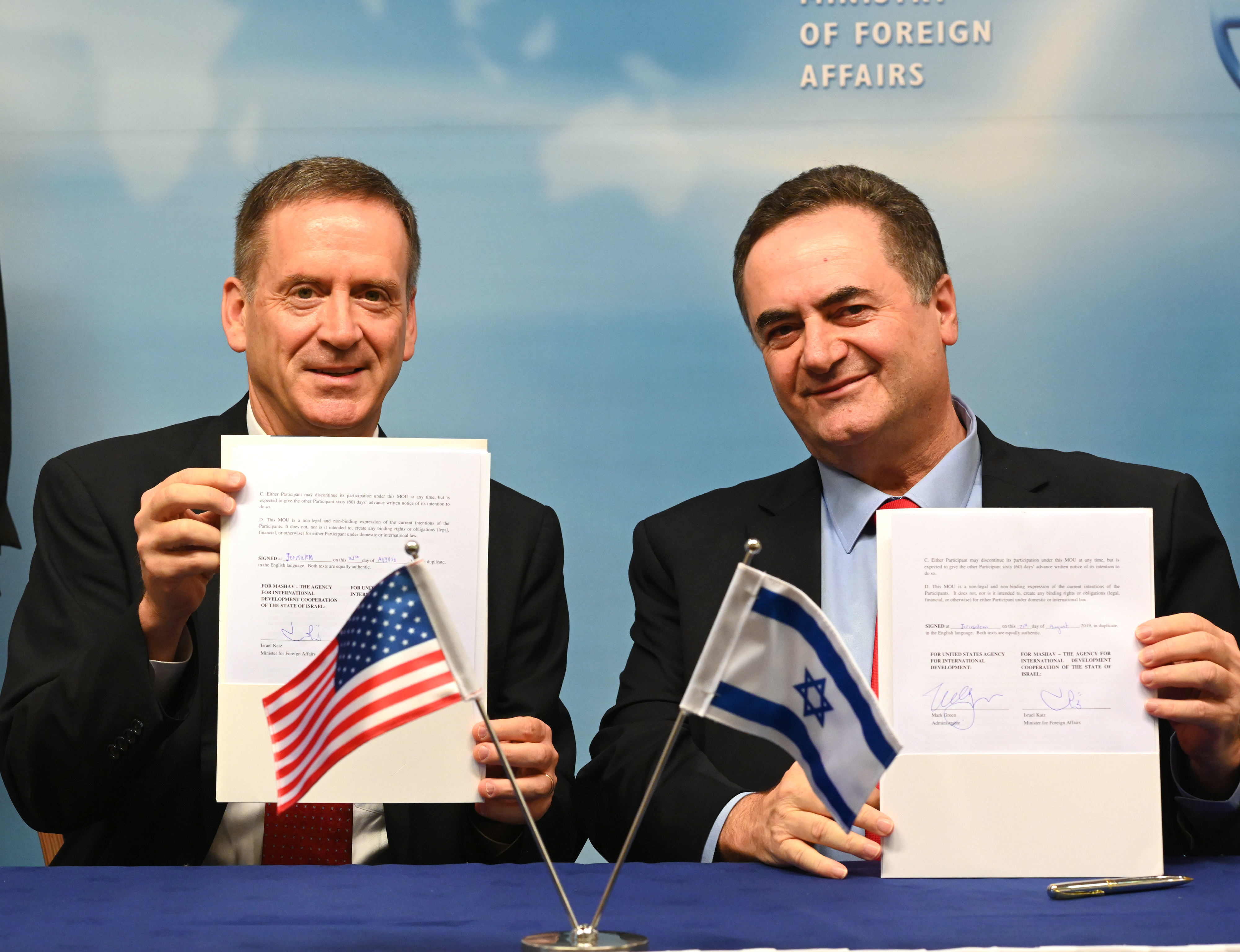 MEMORANDUM OF UNDERSTANDING (MOU) SIGNING CEREMONY WITH THE FOREIGN MINISTER OF ISRAEL Photo credit: Matty STERN/U.S. Embassy Jerusalem